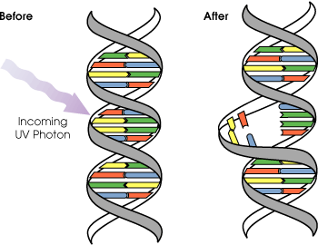 Ultraviolet (UV) photons harm the DNA molecules of living organisms in different ways. In one common damage event, adjacent bases bond with each other, instead of across the “ladder.” This makes a bulge, and the distorted DNA molecule does not function properly.